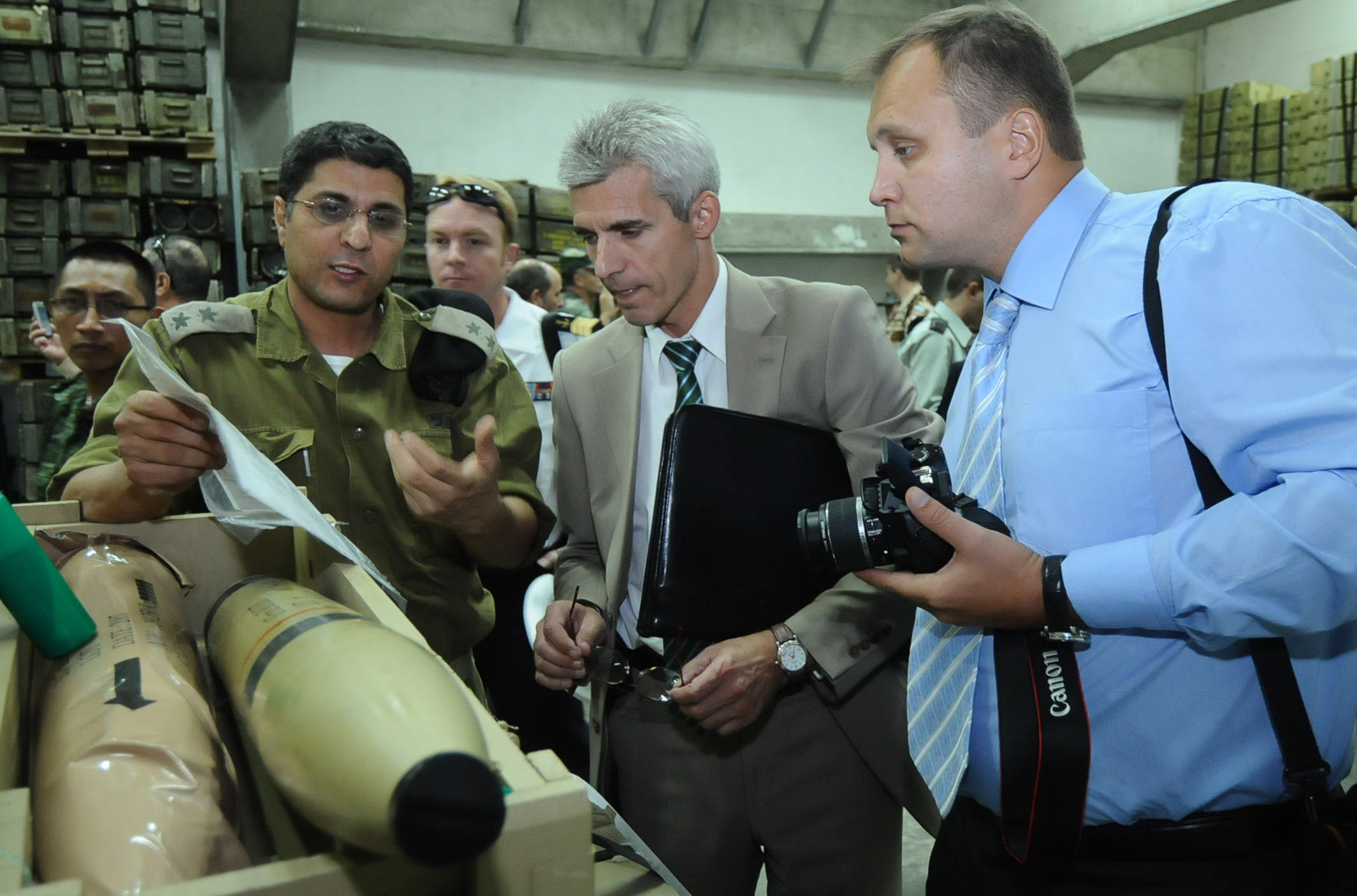 November 5, 2009. Israel Navy forces stopped the cargo ship "Francop" and found missiles, rockets and other weaponry. The ship was brought to the Ashdod port for inspection. Pictured here: Ambassadors and diplomats from 44 countries and military attaches from 27 countries from around the world visited an IDF base in the center of the country in order to examine the various types of weaponry intercepted on the Francop on Wednesday, November 4, 2009.